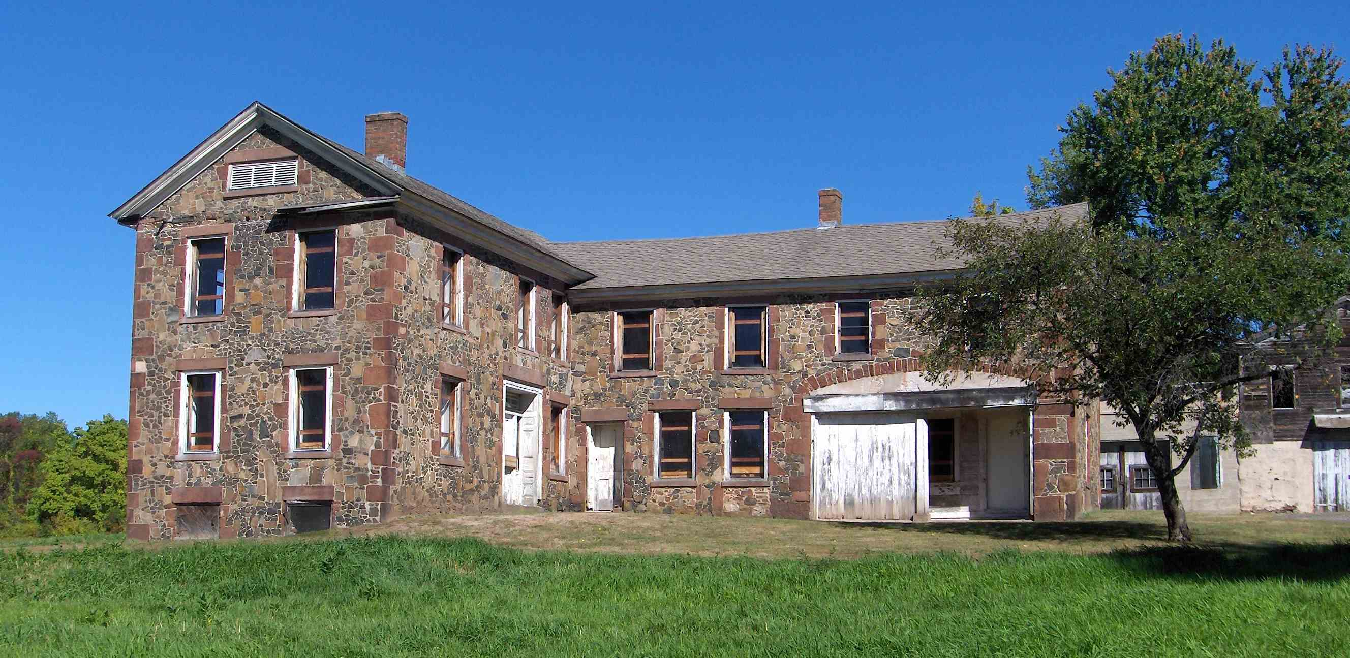 Captain Oliver Filley House, an 1834 Greek Revival stone building in Bloomfield CT USA